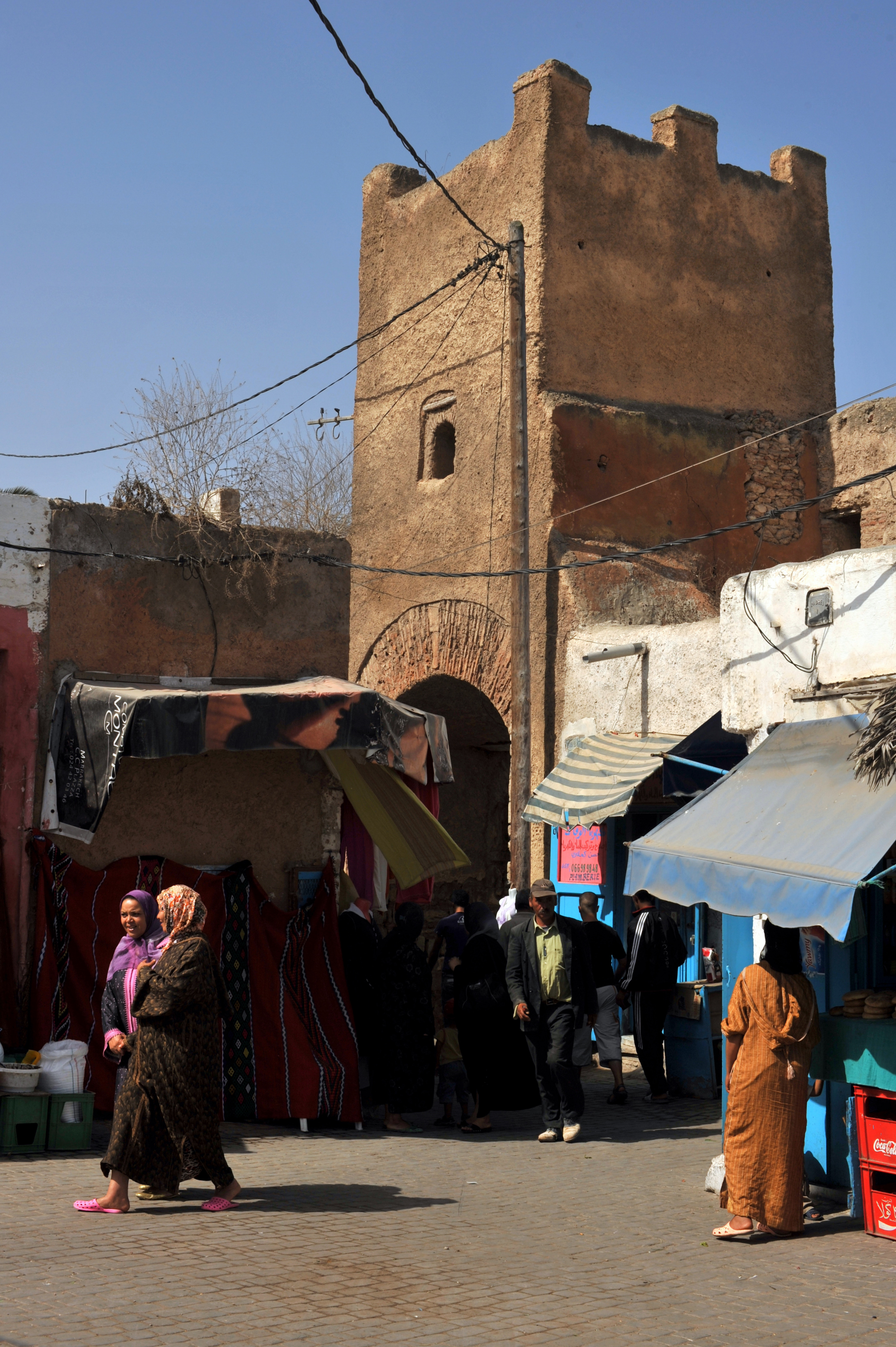 City Azemmour, Morocco.